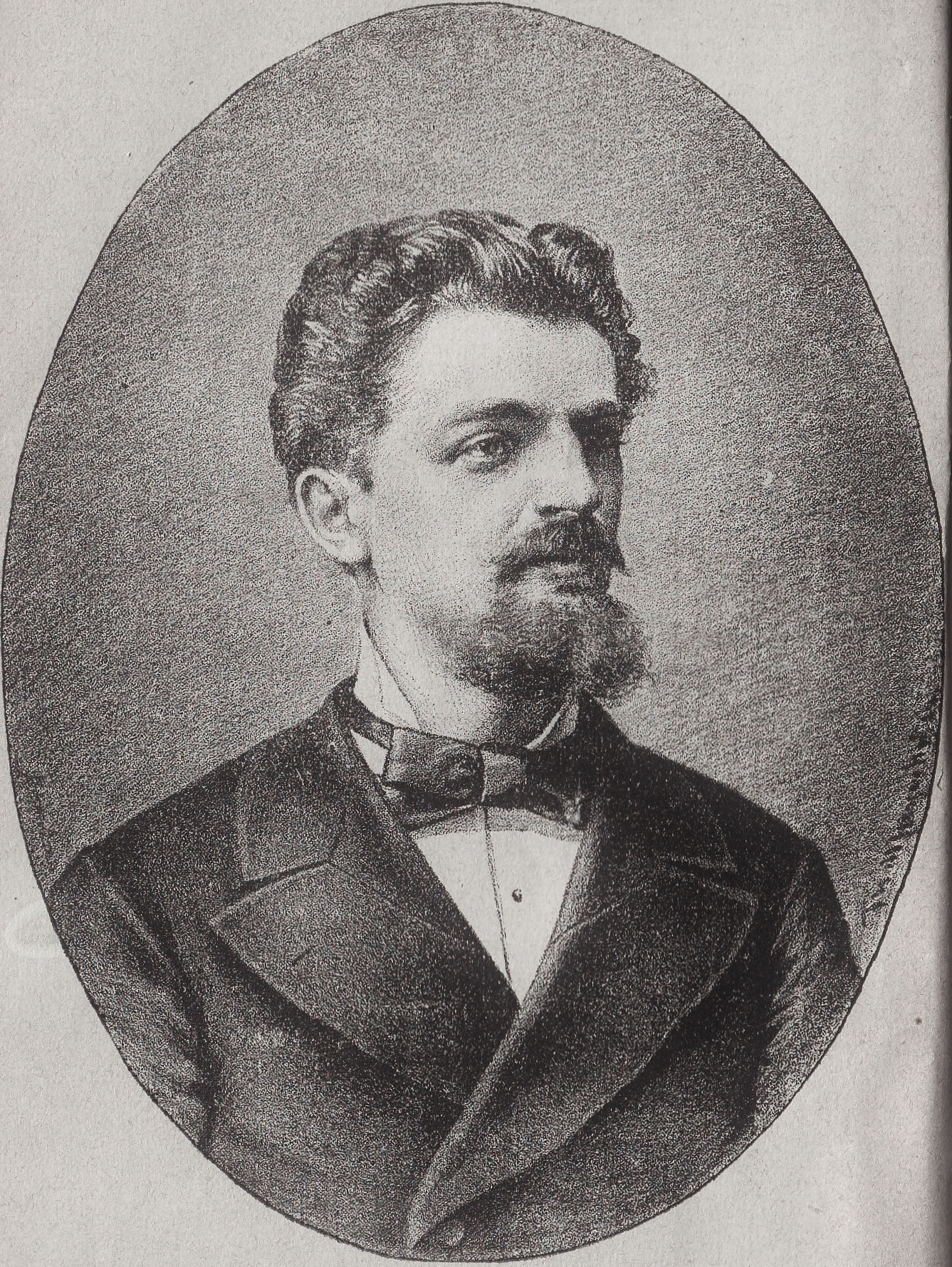 A lithograph of Petar Pero Konjević, a Serbian merchant from Slavonska Požega and a benefactor of Matica Srpska. Taken from the book by Ilija Vučetić - Pero Konjević, narodni dobrotvor (1885). Srpski (latinica): Litografija Petra Pere Konjevića, srpskog trgovca iz Slavonske Požege i dobrotvora Matice srpske. Preuzeto iz knjige Ilije Vučetića - Pero Konjević, narodni dobrotvor (1885).